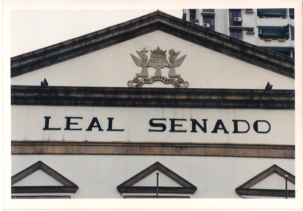 Leal Senado de Macau